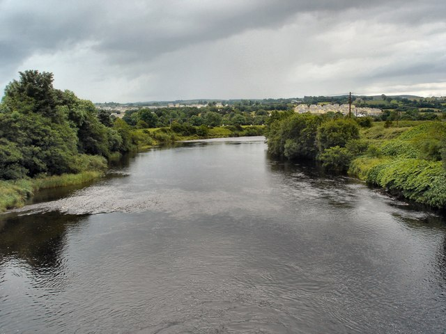 The River Finn The river Finn flows between the twin towns of Stranorlar and Ballybofey in County Donegal. The picture is taken from the bridge which separates the two towns.